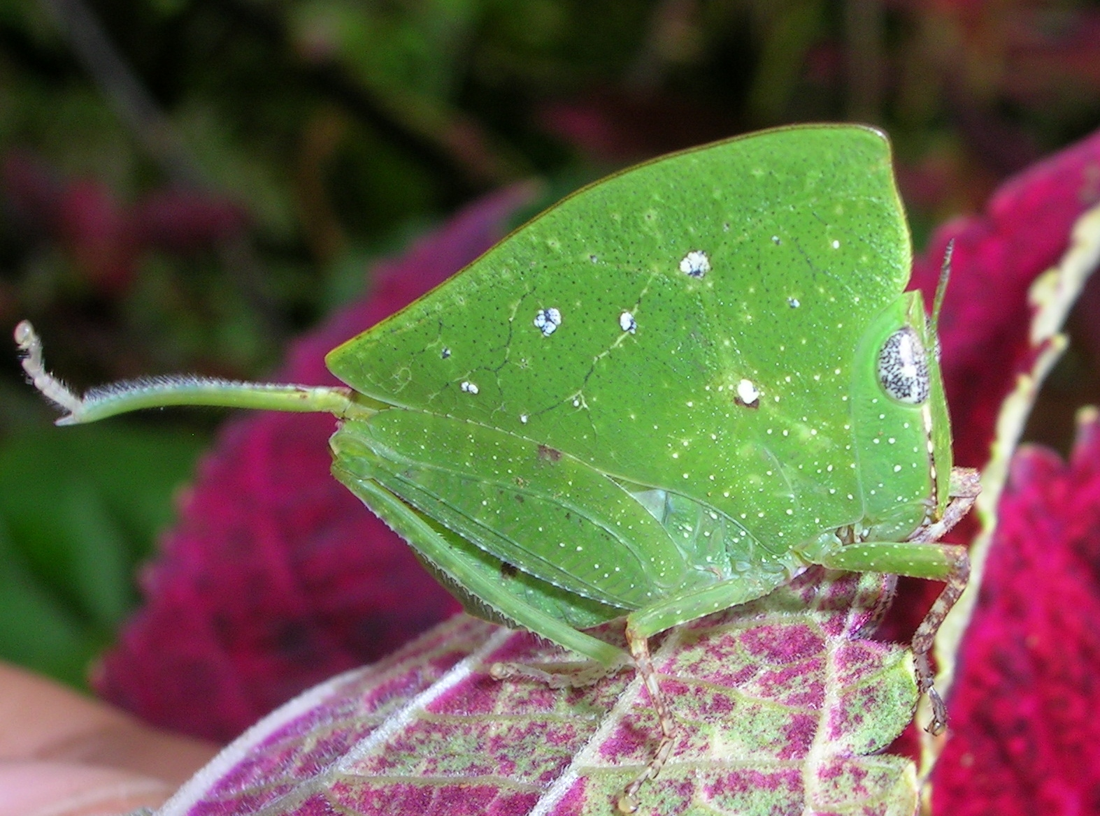 Phyllochoreia ramakrishnai (female), Chorotypidae, Orthoptera. A female flattened like a leaf. Western Ghats, Wayanad, India